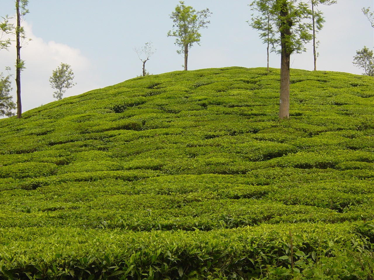 Tea plantation at Waynad